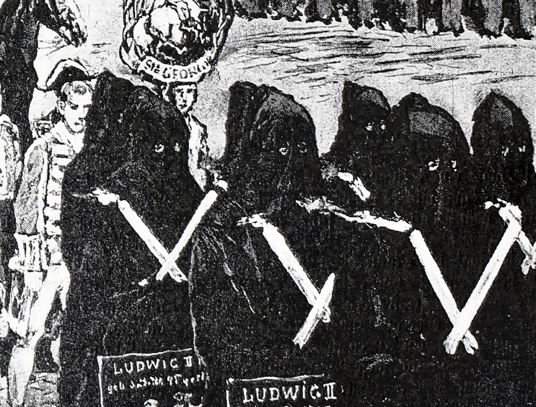 Expression error: Unrecognized word "die".